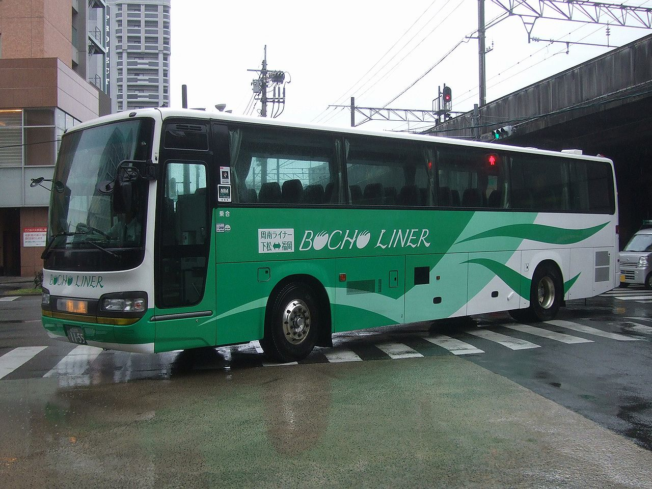 Highway bus "Fukuoka Hofu Shunan Liner" Company:Bocho Kotsu Use:transit bus (highway bus) Belongs to:Shunan depot Car license:YU 200 KA 1155 Chassis manufacturer:Hino Motors Coachbuilder:J-BUS Location:in Hakata Ward, Fukuoka City, Fukuoka, Japan.